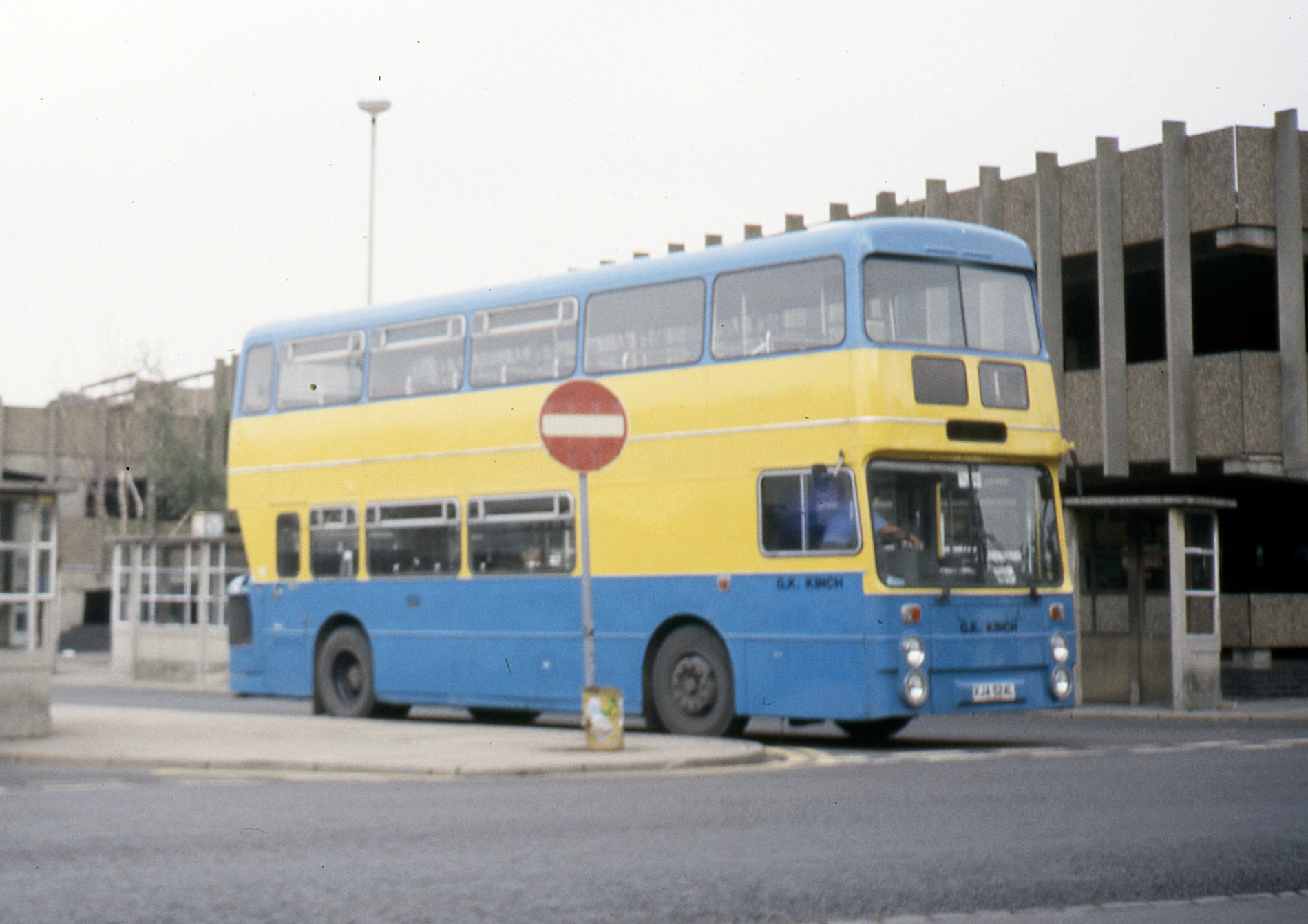 G K Kinch (ex-Greater Manchester PTE) Park Royal bodied Leyland Atlantean XJA 524L in Loughborough Bus Station in summer 1987.